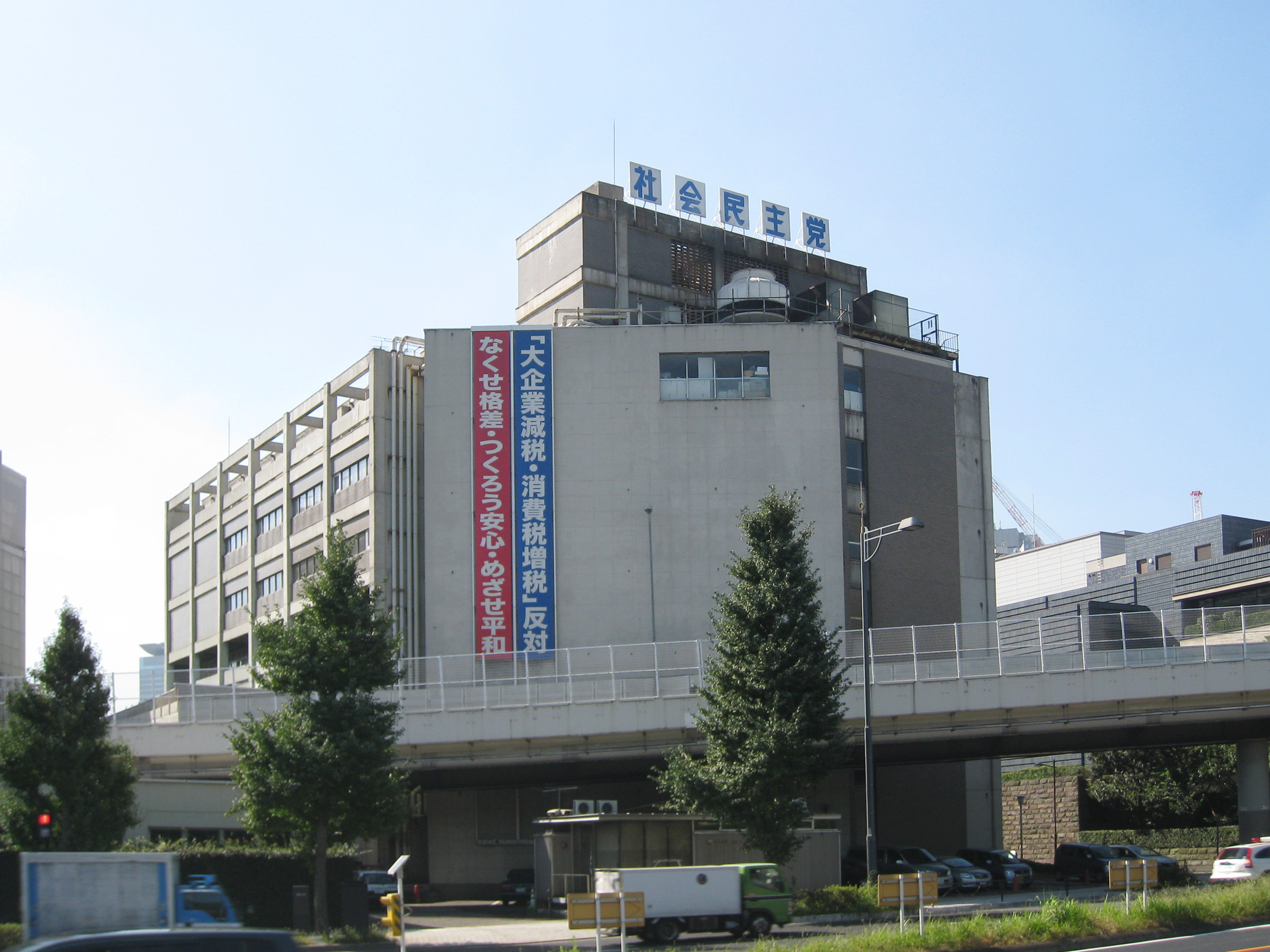 Social Democratic Party of Japan (社会民主党 Shakai Minshu-tō), located at Category:Nagatachō, Chiyda, Tokyo, Japan